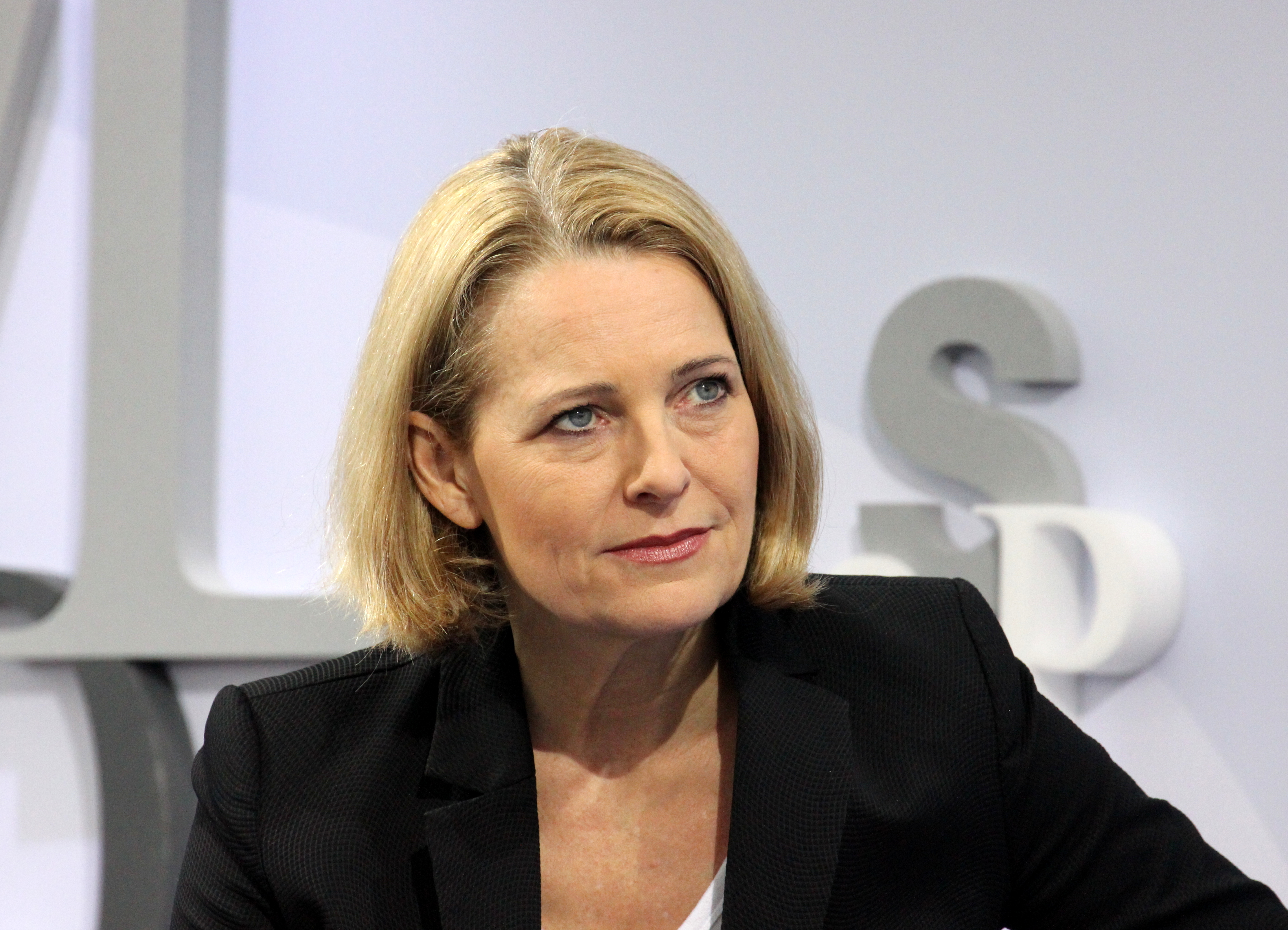 Miriam Meckel Leipzig Book Fair 2018